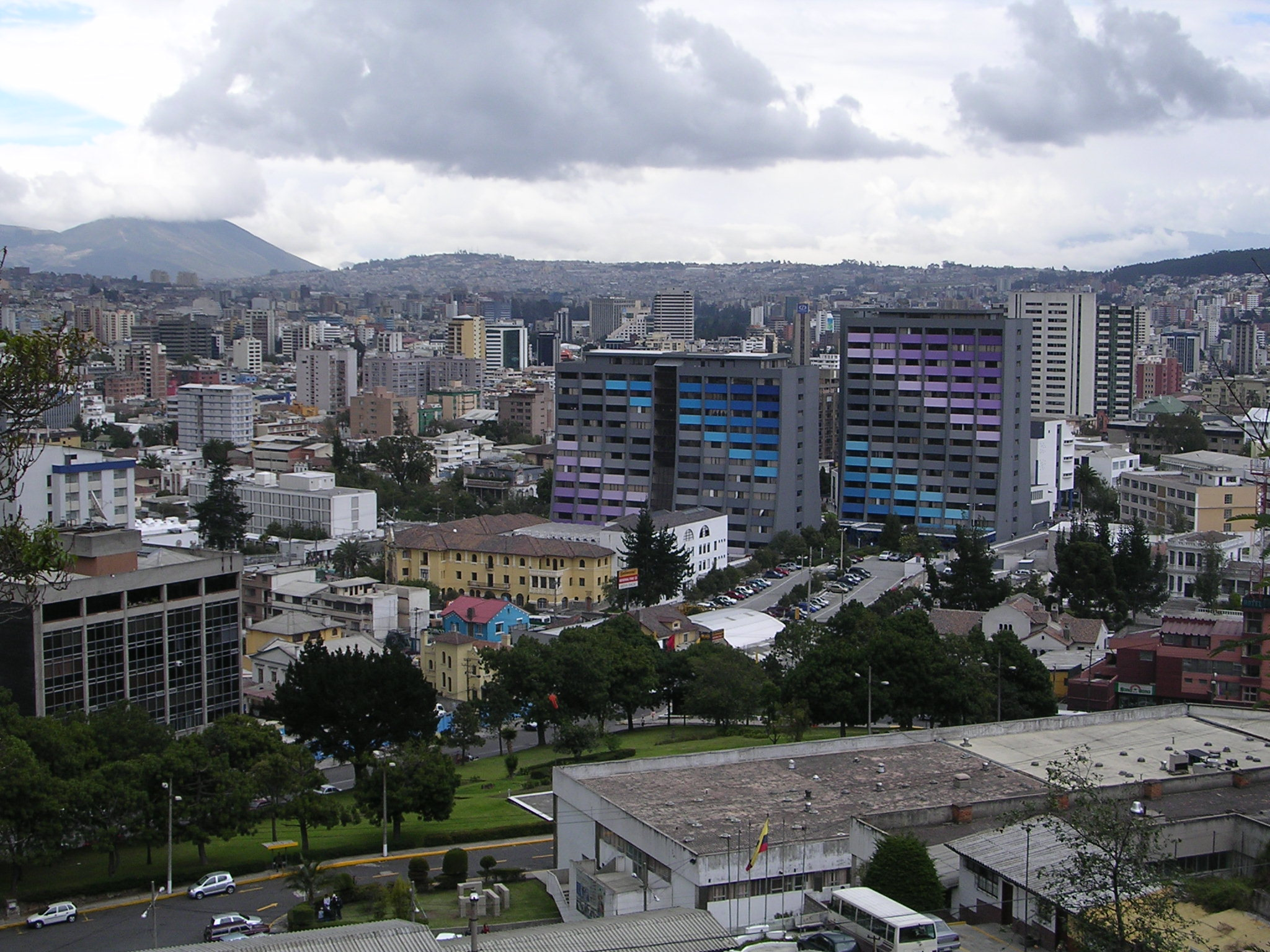 Main buildings of the Pontificia Universidad Católica del Ecuador (PUCE) in Quito. Image taken from the Instituto Geográfico Militar.